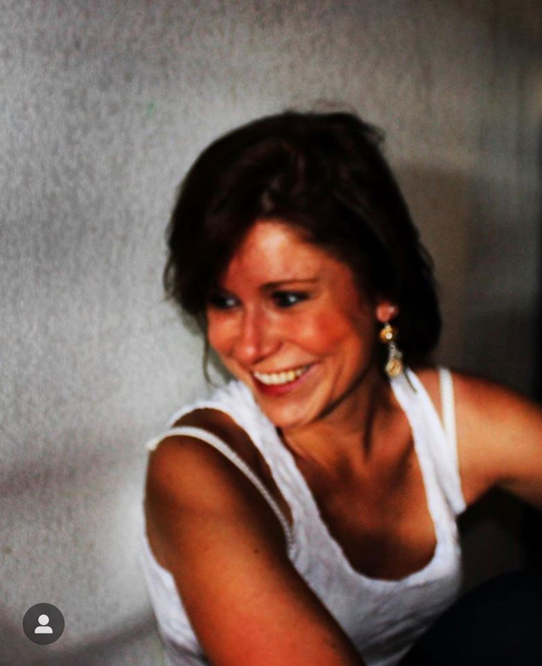 Rosanne Mathot, 2019